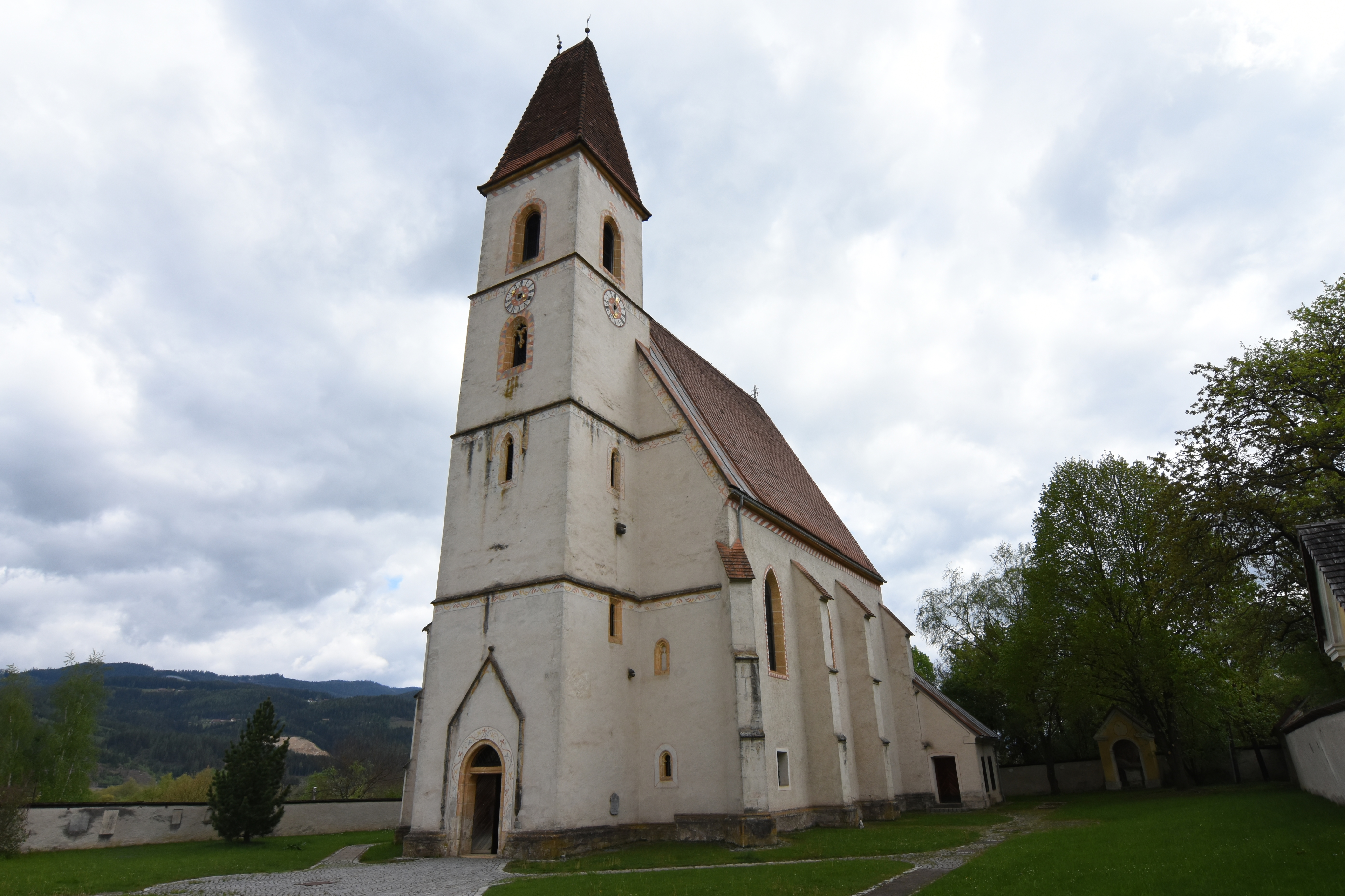 All Saints Church, Allerheiligen im Mürztal